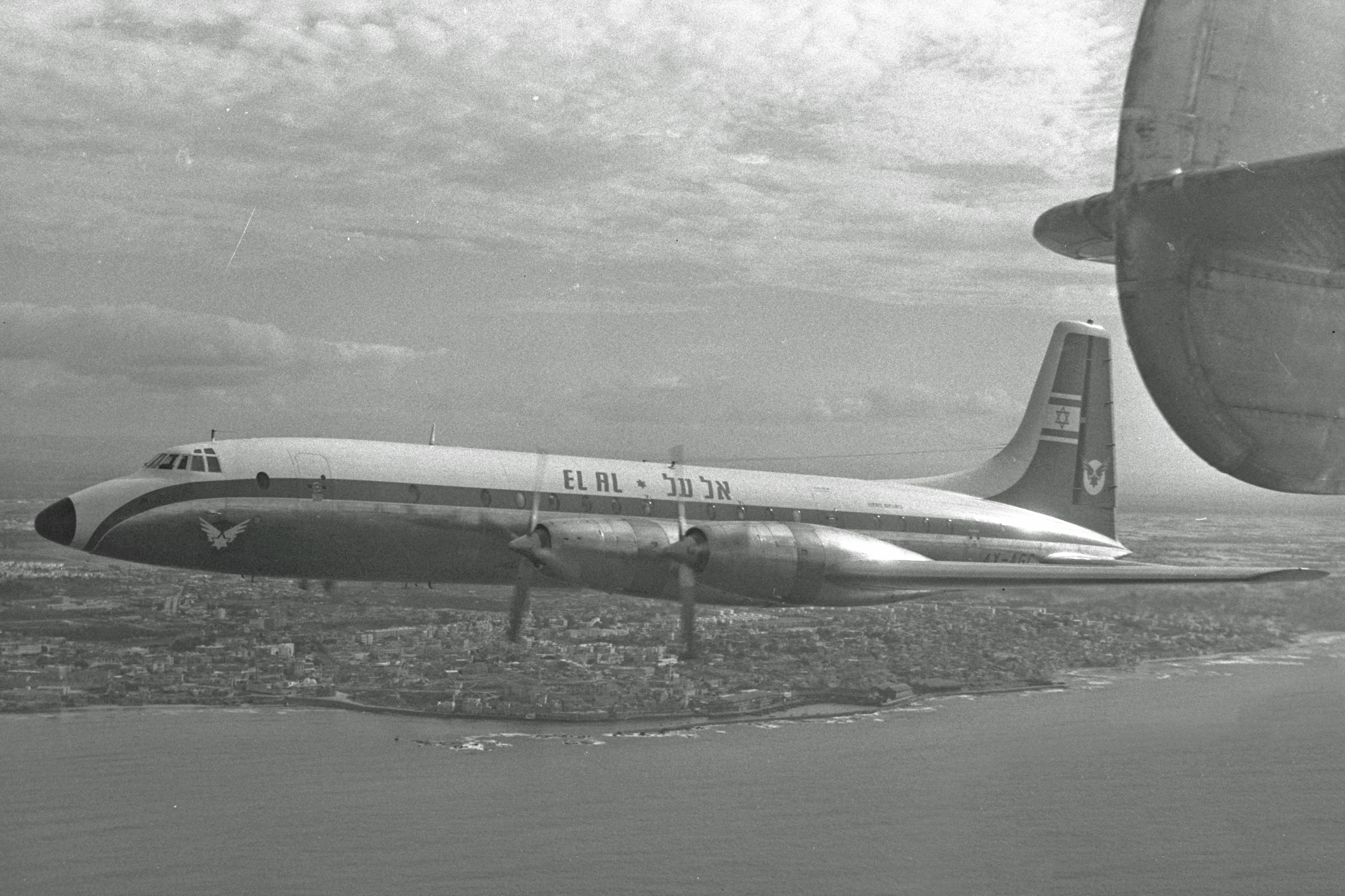 El Al Bristol Britannia over Tel Aviv